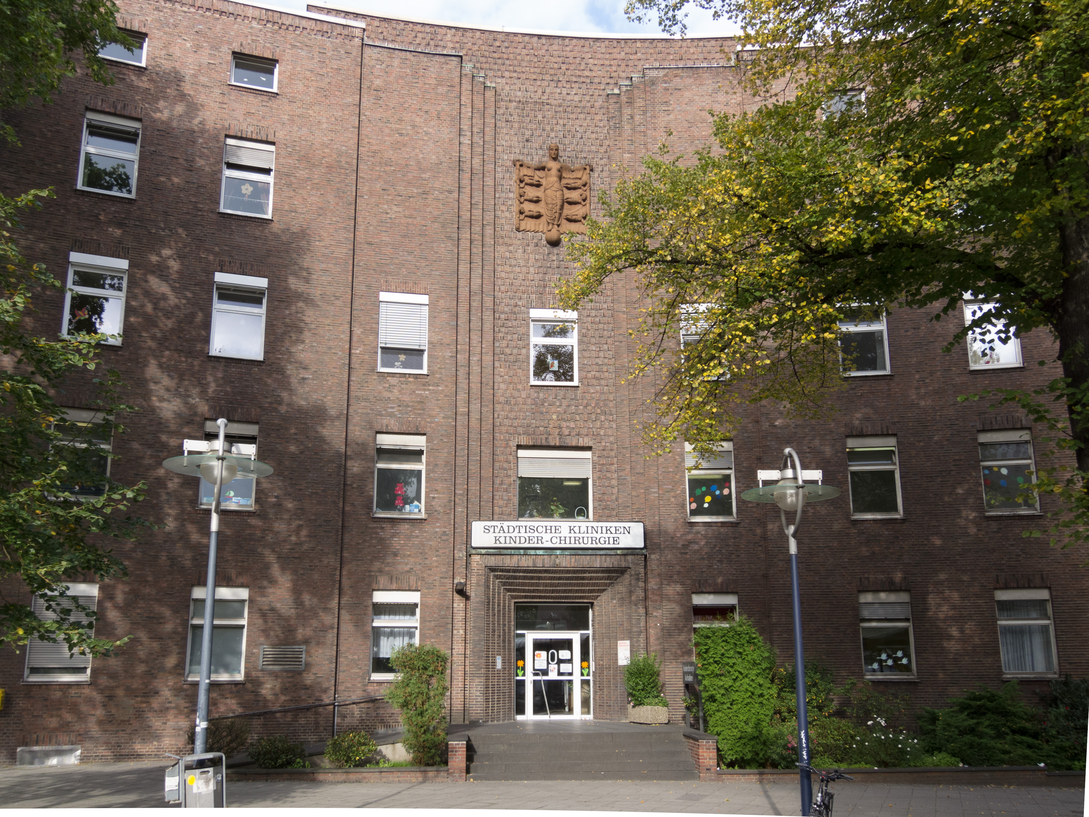 Klinikum Dortmund, Klinikzentrum Mitte (city centre); Pediatric surgery